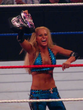 The former and first Divas Champion, Michelle McCool